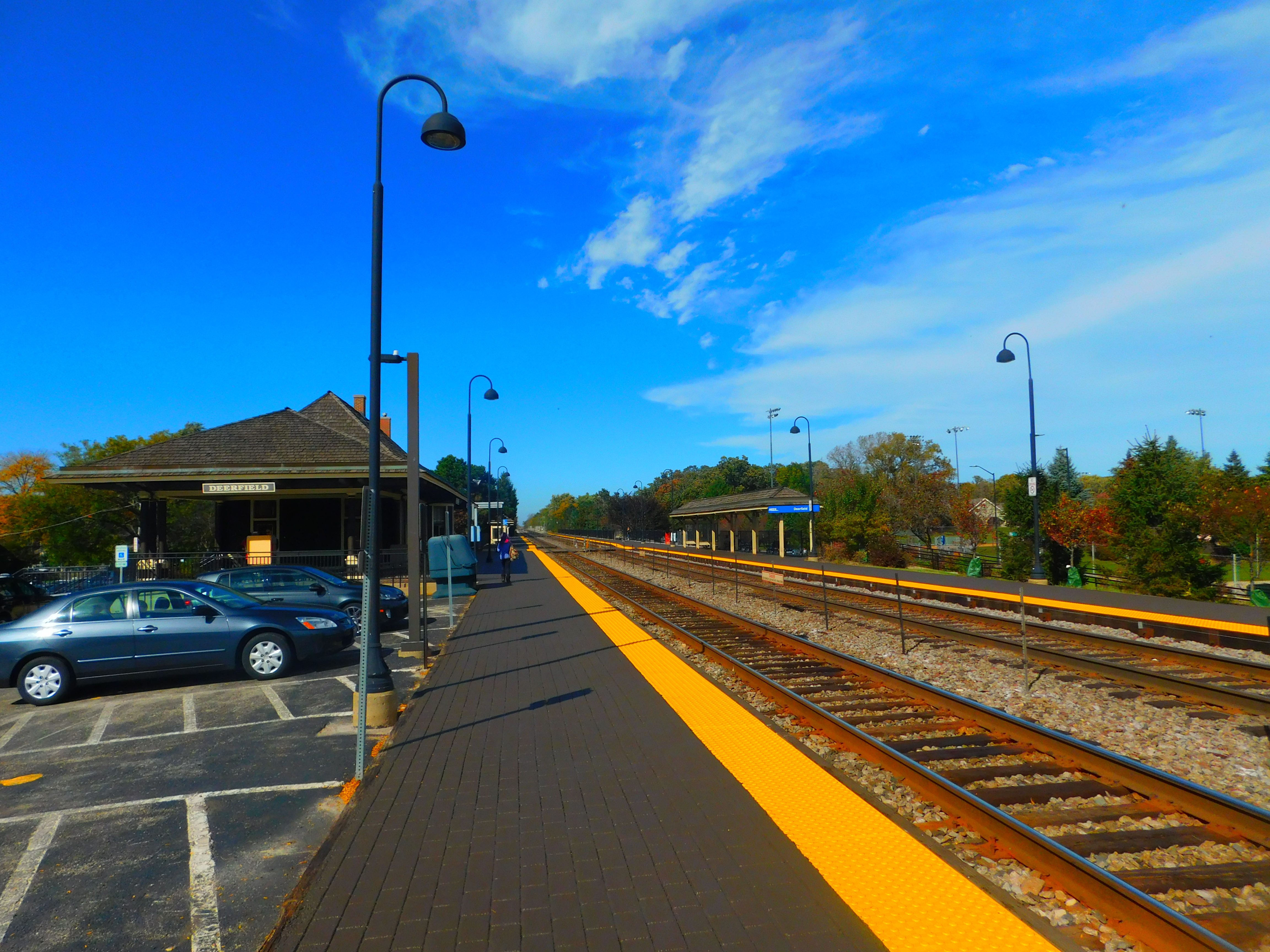 Deerfield staiton on Metra in Deerfield, Illinois.